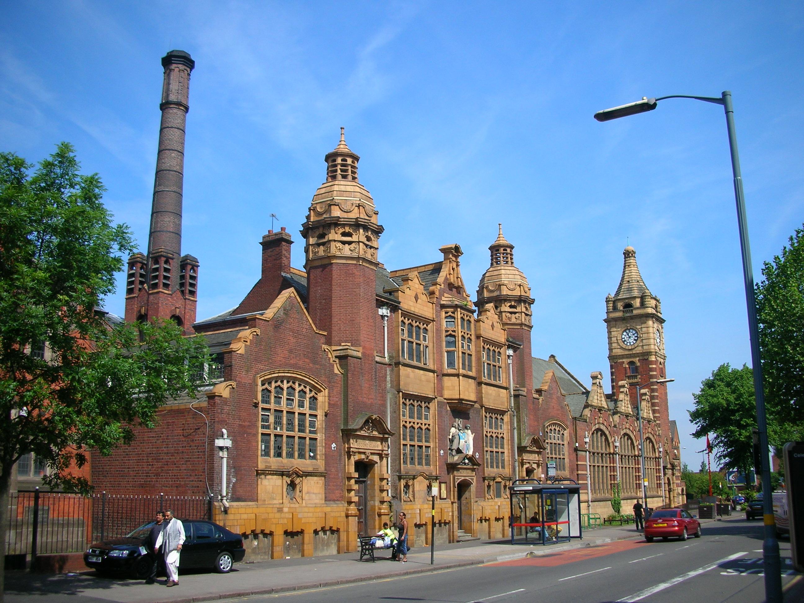 The baths and public library on Moseley Road, Balsall Heath, Birmingham, England. Photographed by me.